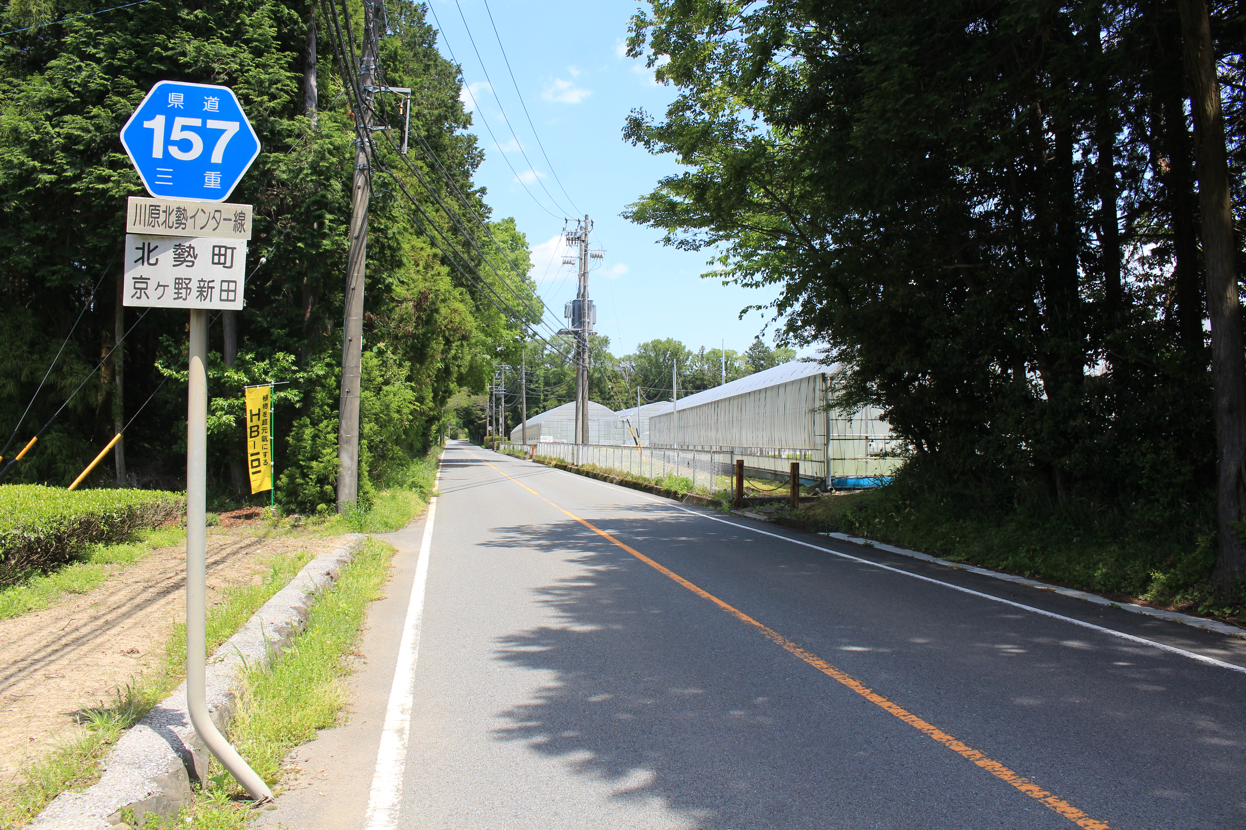 Mie Prefectural Road Route 157 in Kyoganoshinden, Hokusei-cho, Inabe, Mie prefecture, Japan.